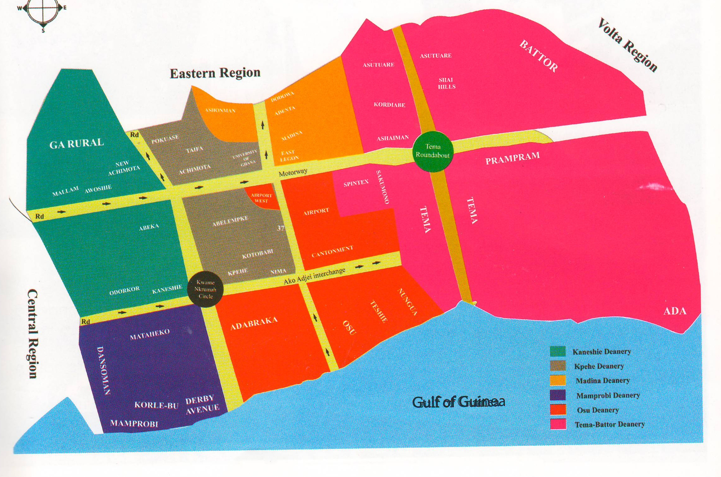 The Divisions of the Roman Catholic Archdiocese of Accra